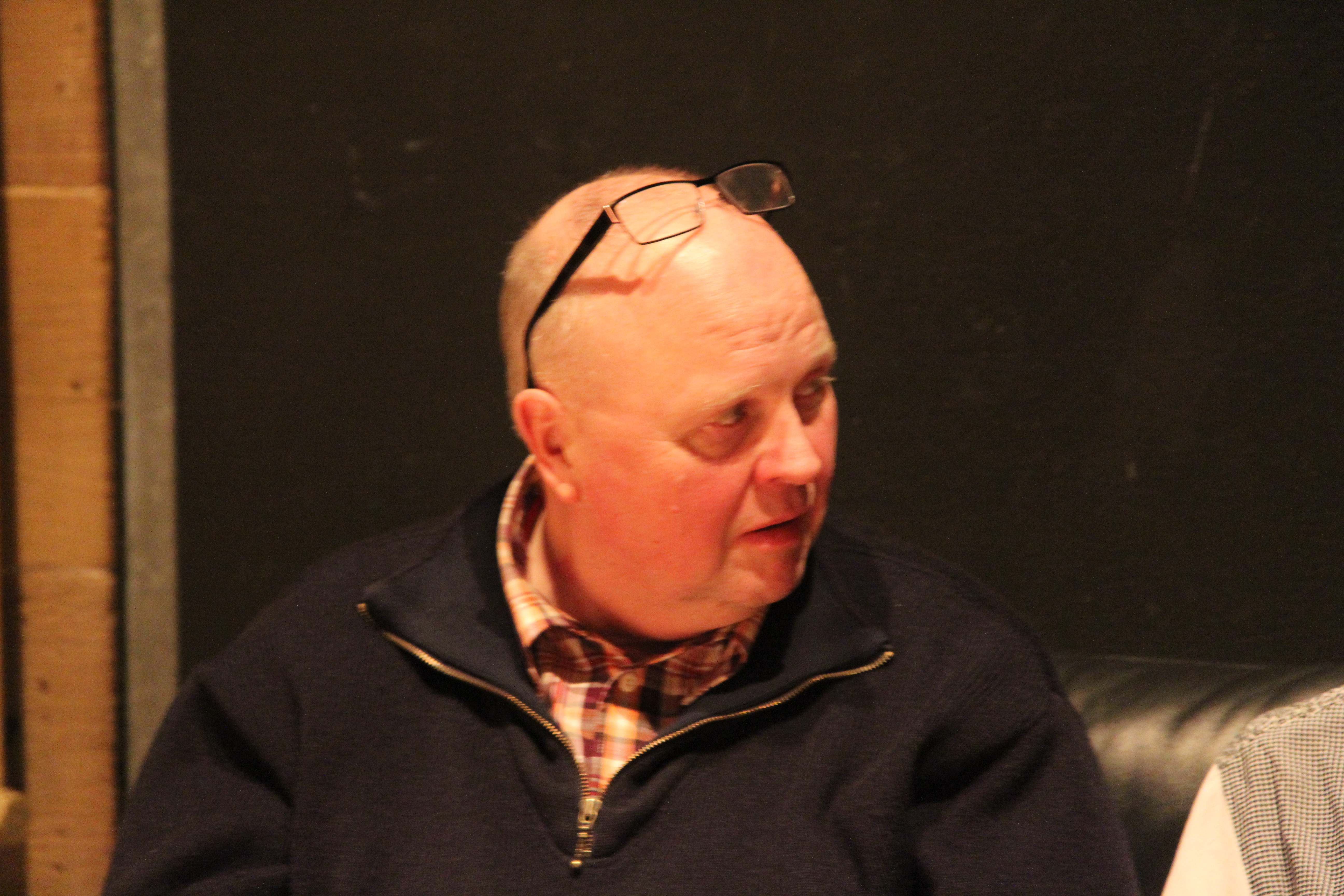 Frieder Butzmann, German musician, composer, actor, after his performance in the stage production of "Stadt der 1000 Feuer" by Oliver Augst and John Birke on January 23, 2014, in Mannheim, Germany